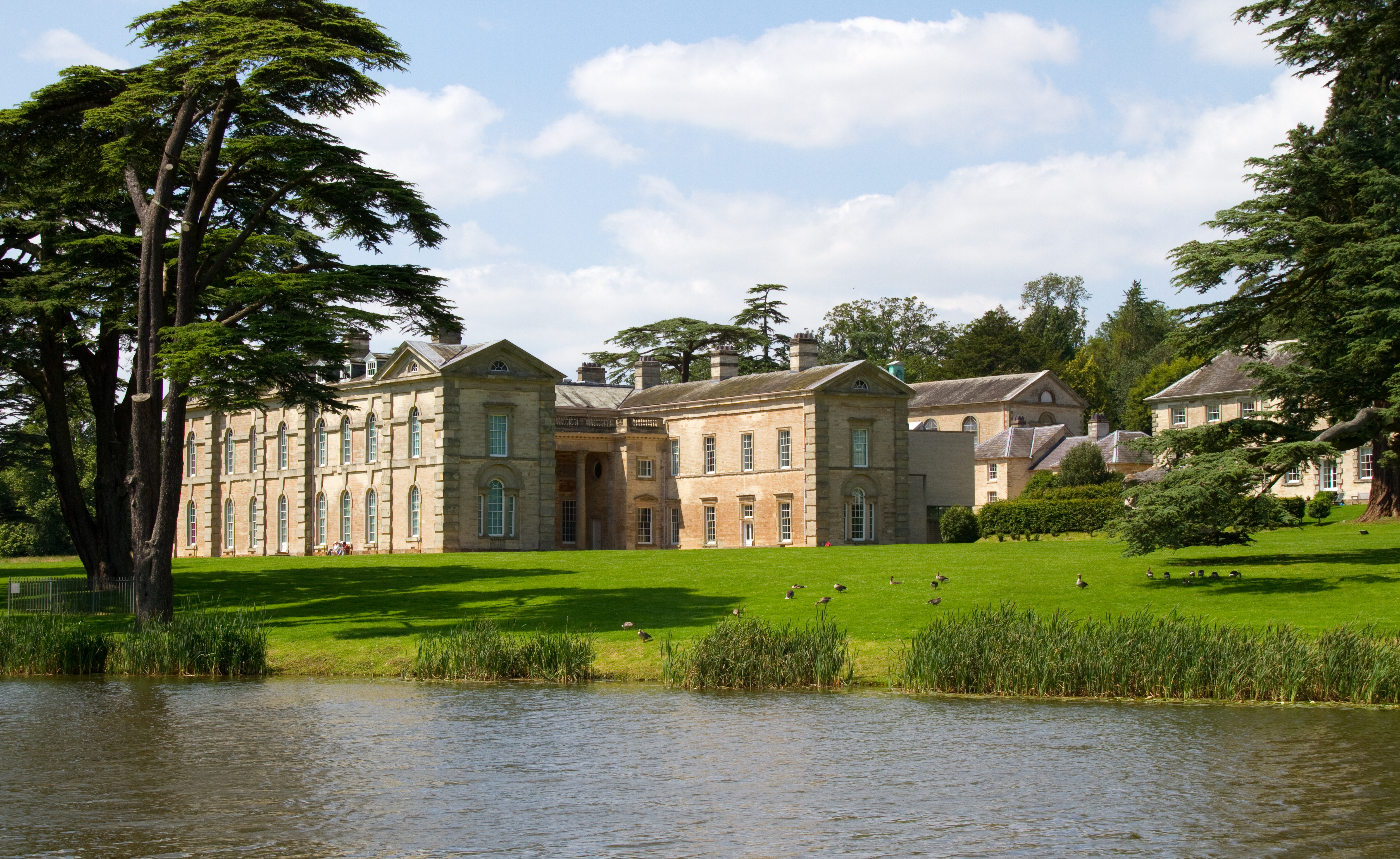 Country house. built around 1714. The west range, attributed to Sir John Vanbrugh, with alterations and additions of 1761-65 by Robert Adam and alterations of 1855 by John Gibson